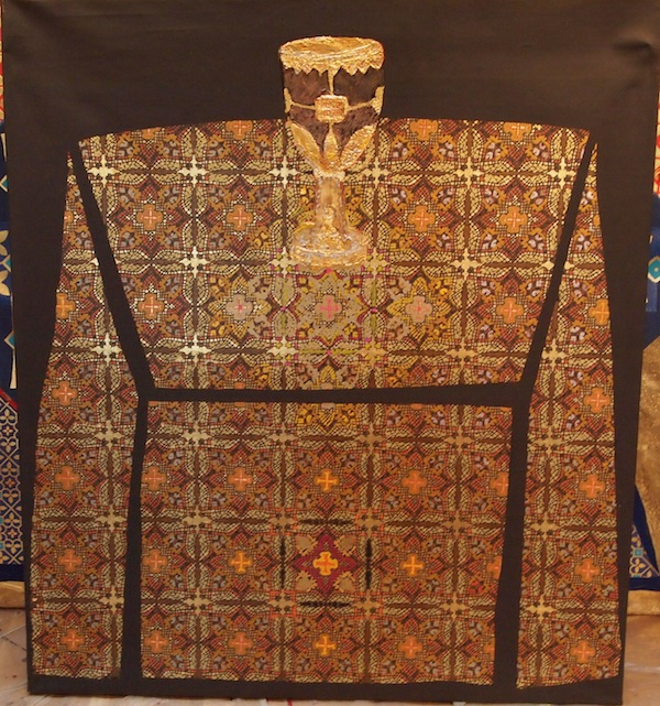 Cămașa lui Hristos (Silviu Oravitzan)